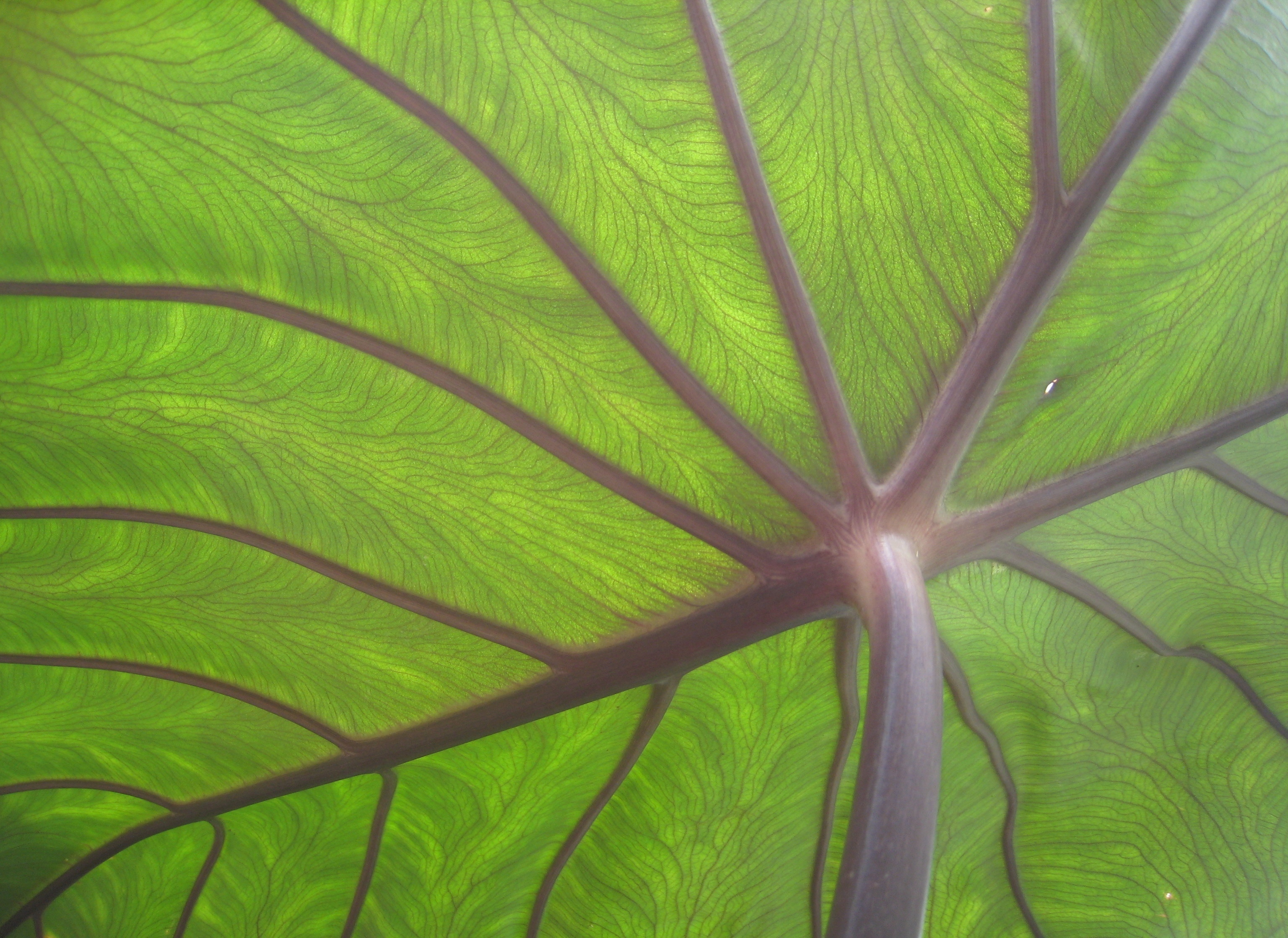 Underside of taro (Colocasia esculenta) leaf, backlit by direct sunlight. Growing in a backyard in Auckland, New Zealand.